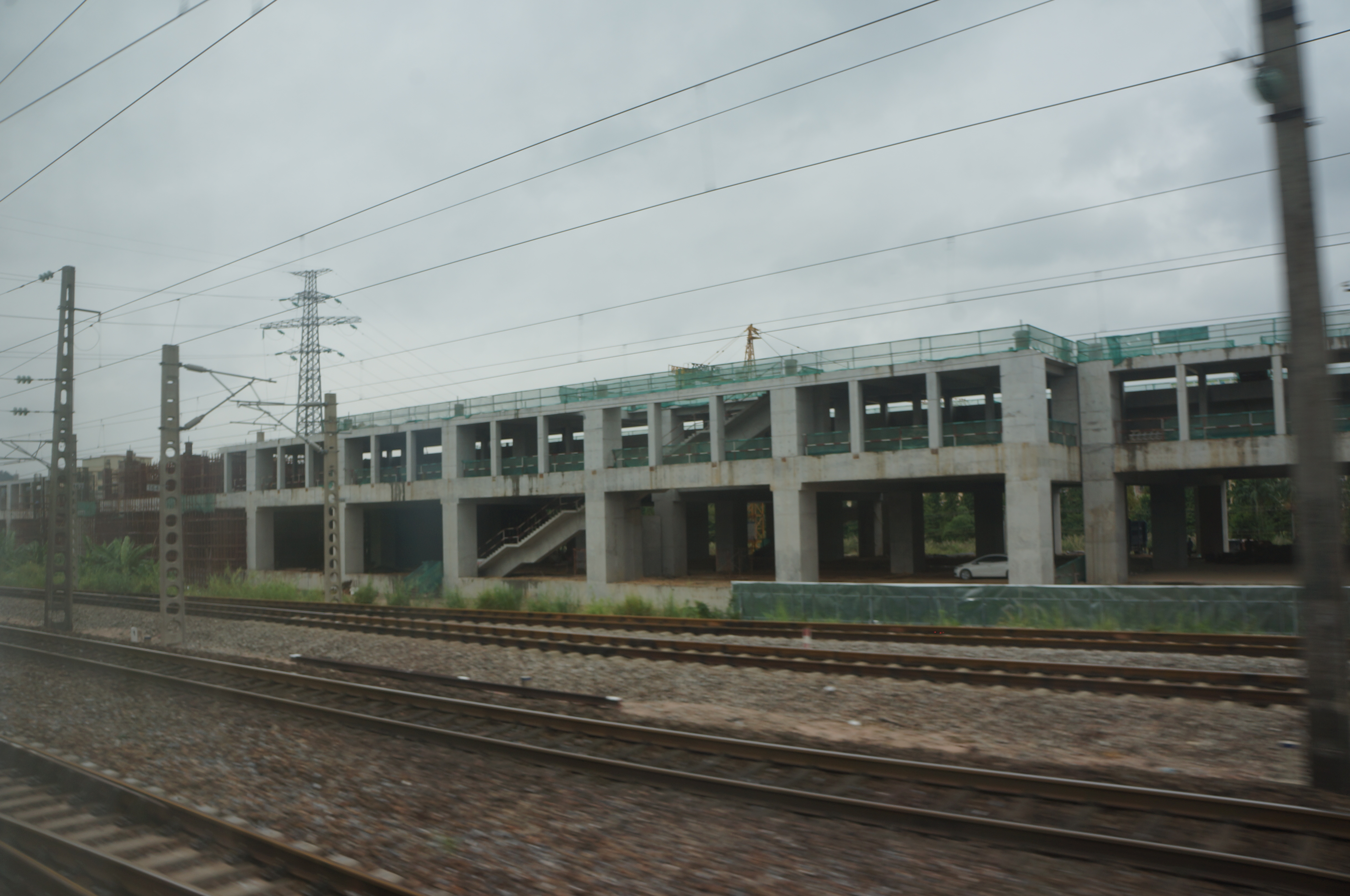 201609 Shiling Station under construction